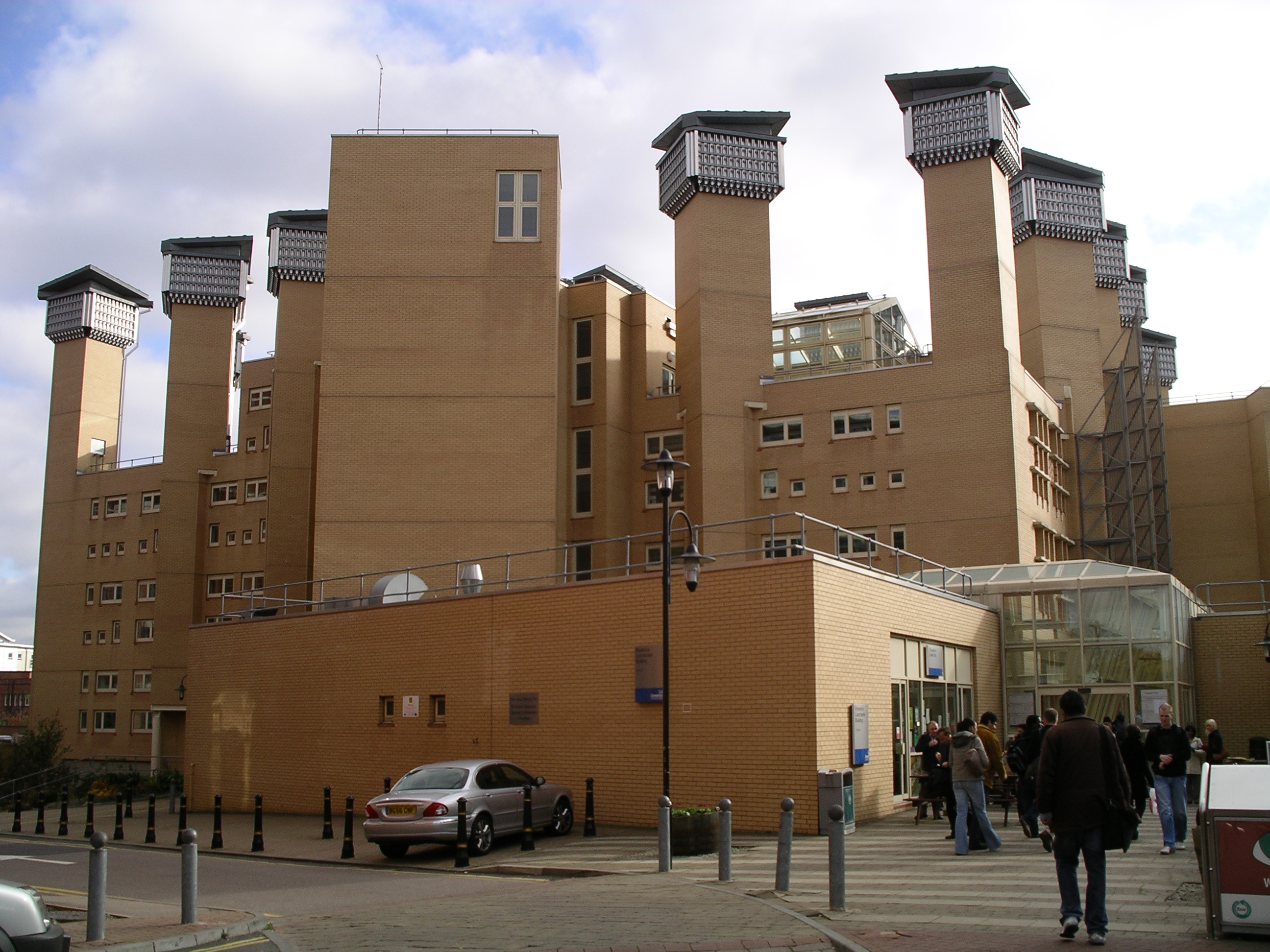 The Frederick Lanchester Building, Coventry University, Coventry, England.